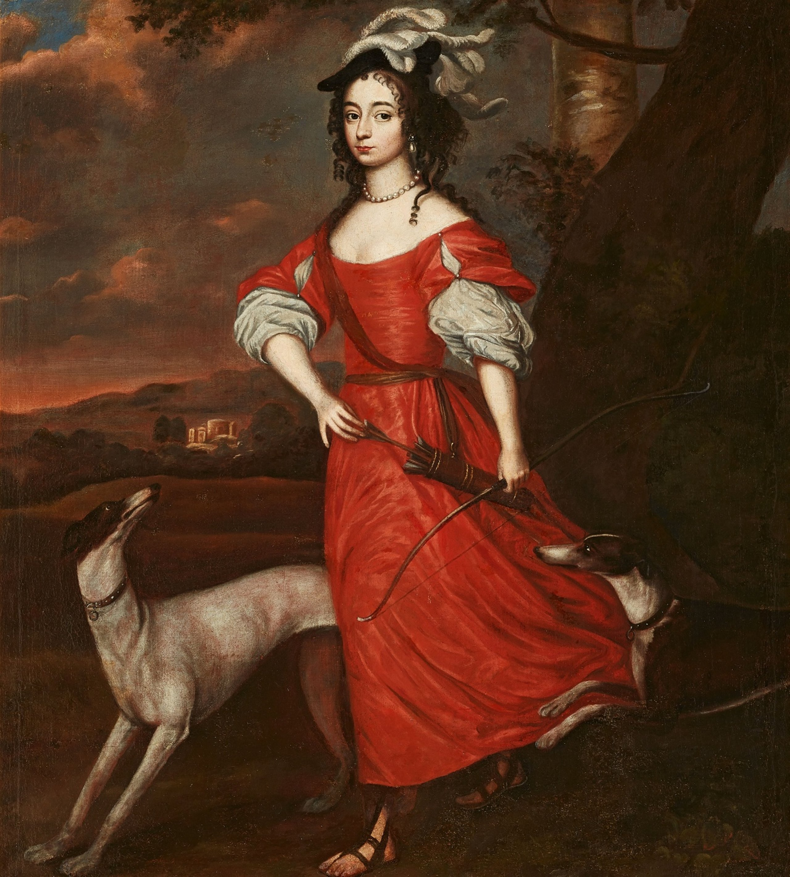 Portrait of Henriette Catharina of Nassau-Orange, later Princess of Anhalt-Dessau by Gerrit van Honthorst